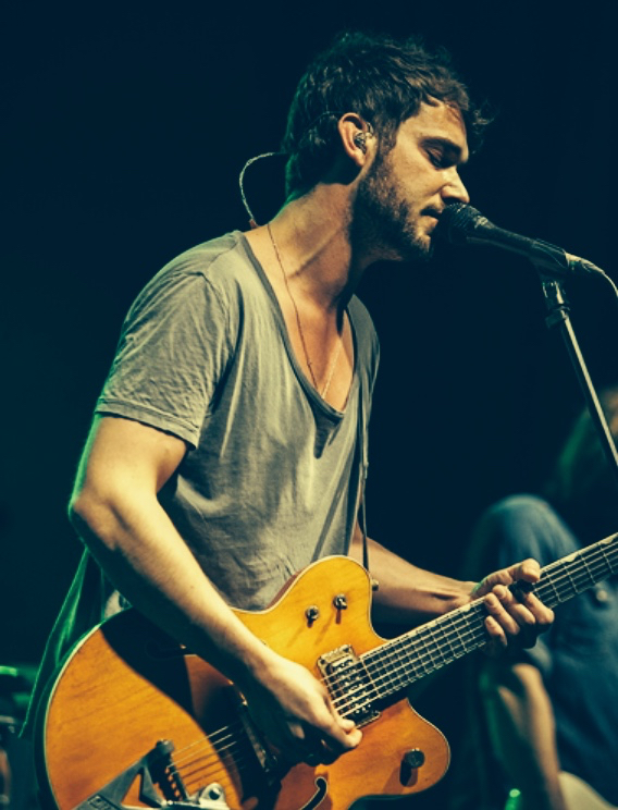 Robert Redweik at a concert 2014